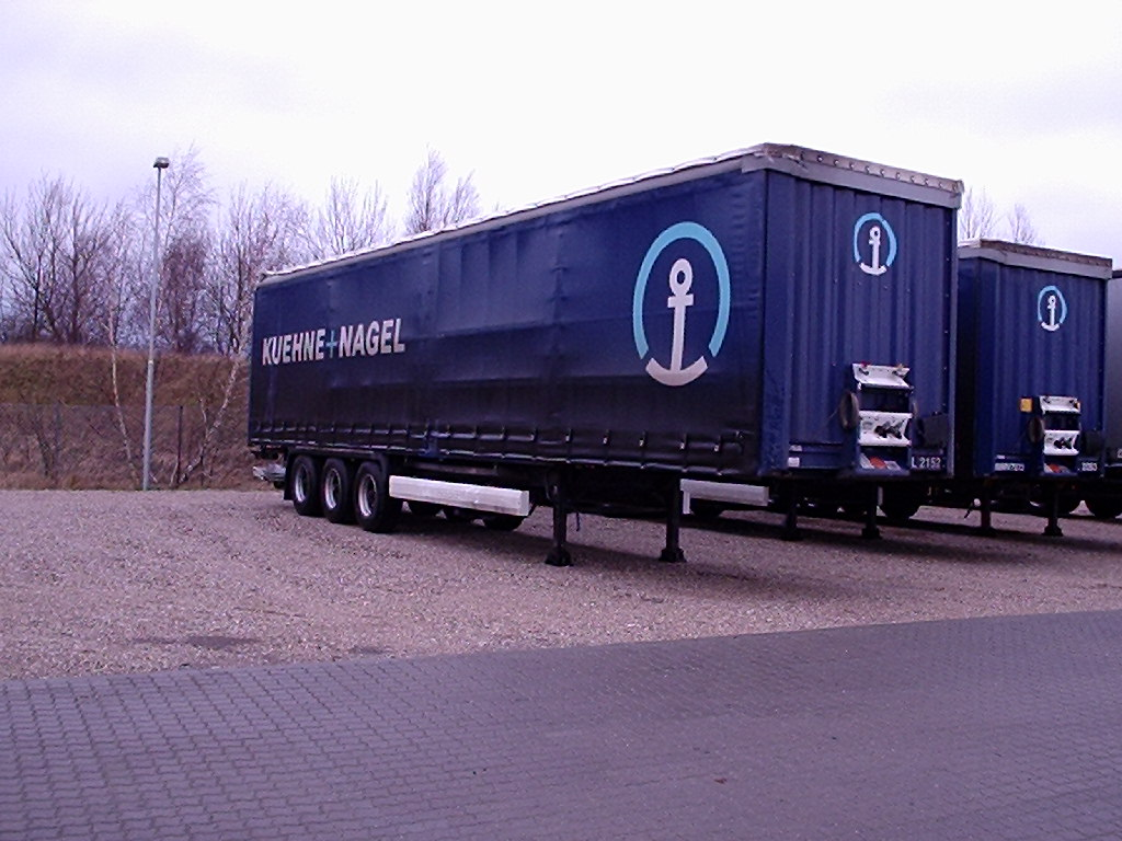 Semitrailer without truck